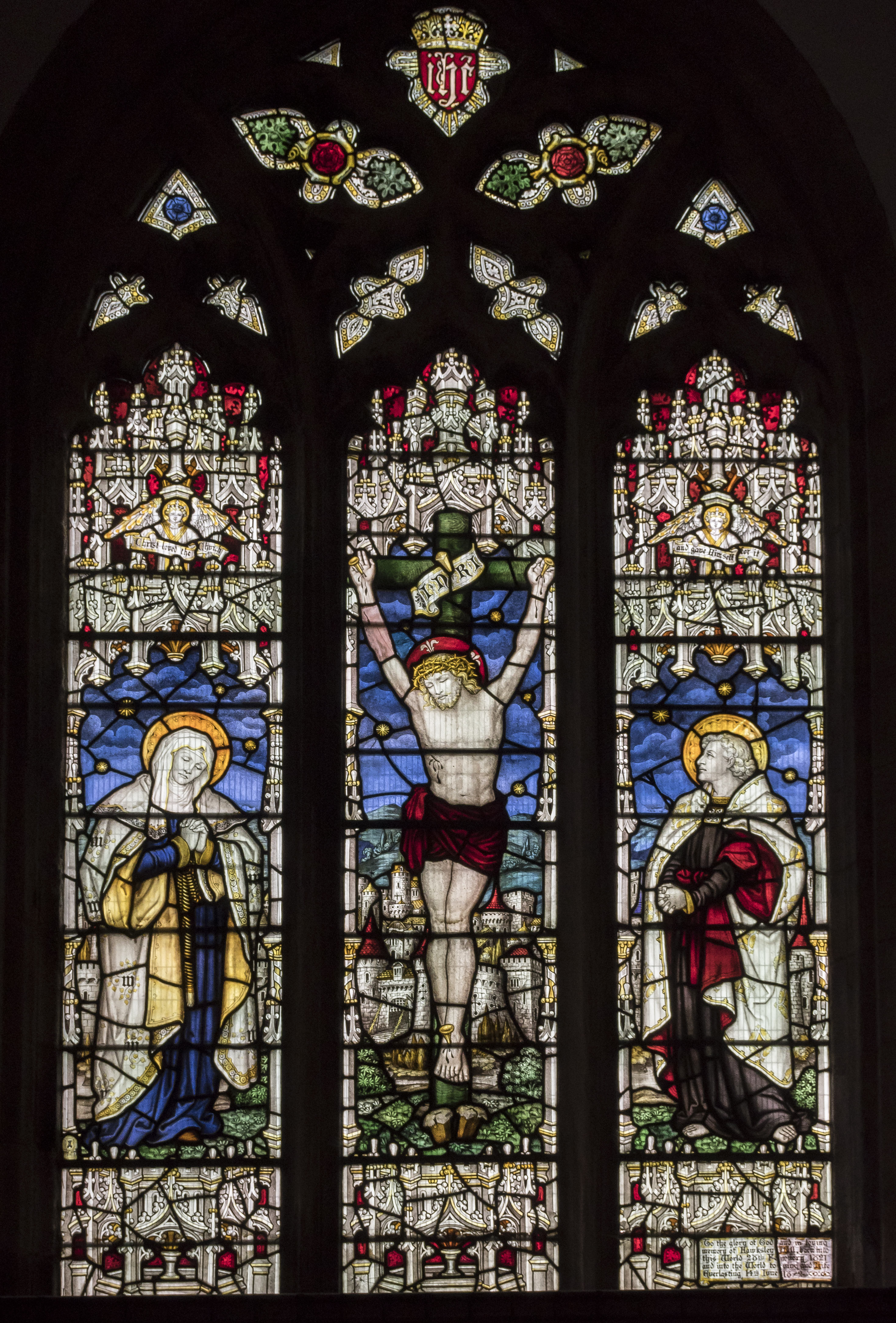 Three light window depicting The Crucifixion by Kempe, 1920. In memory of Hawkesley Hall, d. 1879(?) He was Secretary for the restoration fund of the church in the 1850's.